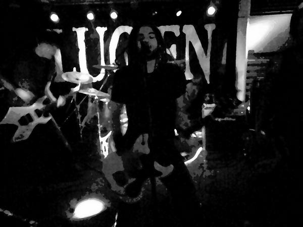 Lucien (band) onstage